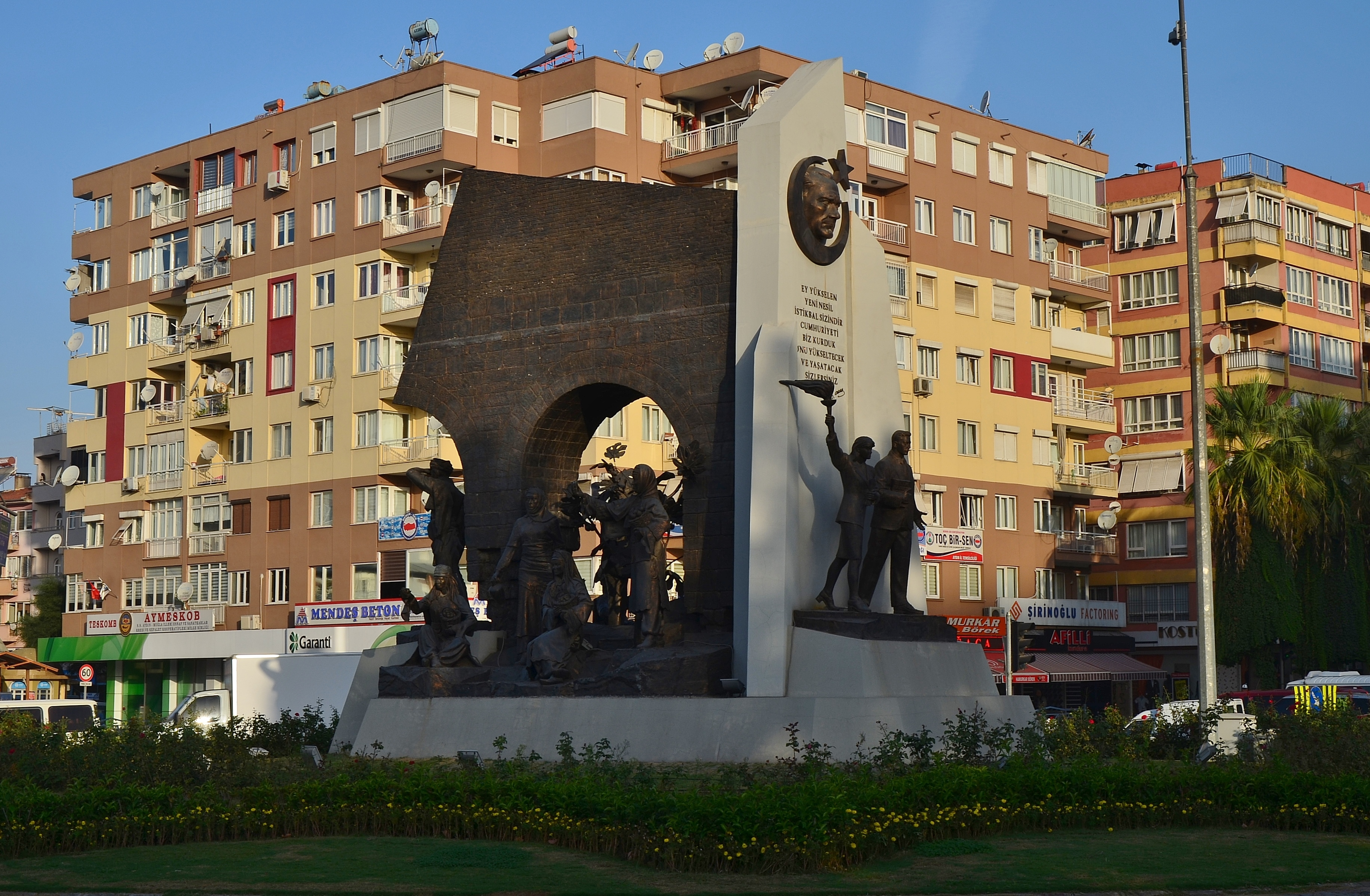 Monument to Turkish War of Independence in Aydın, Turkey